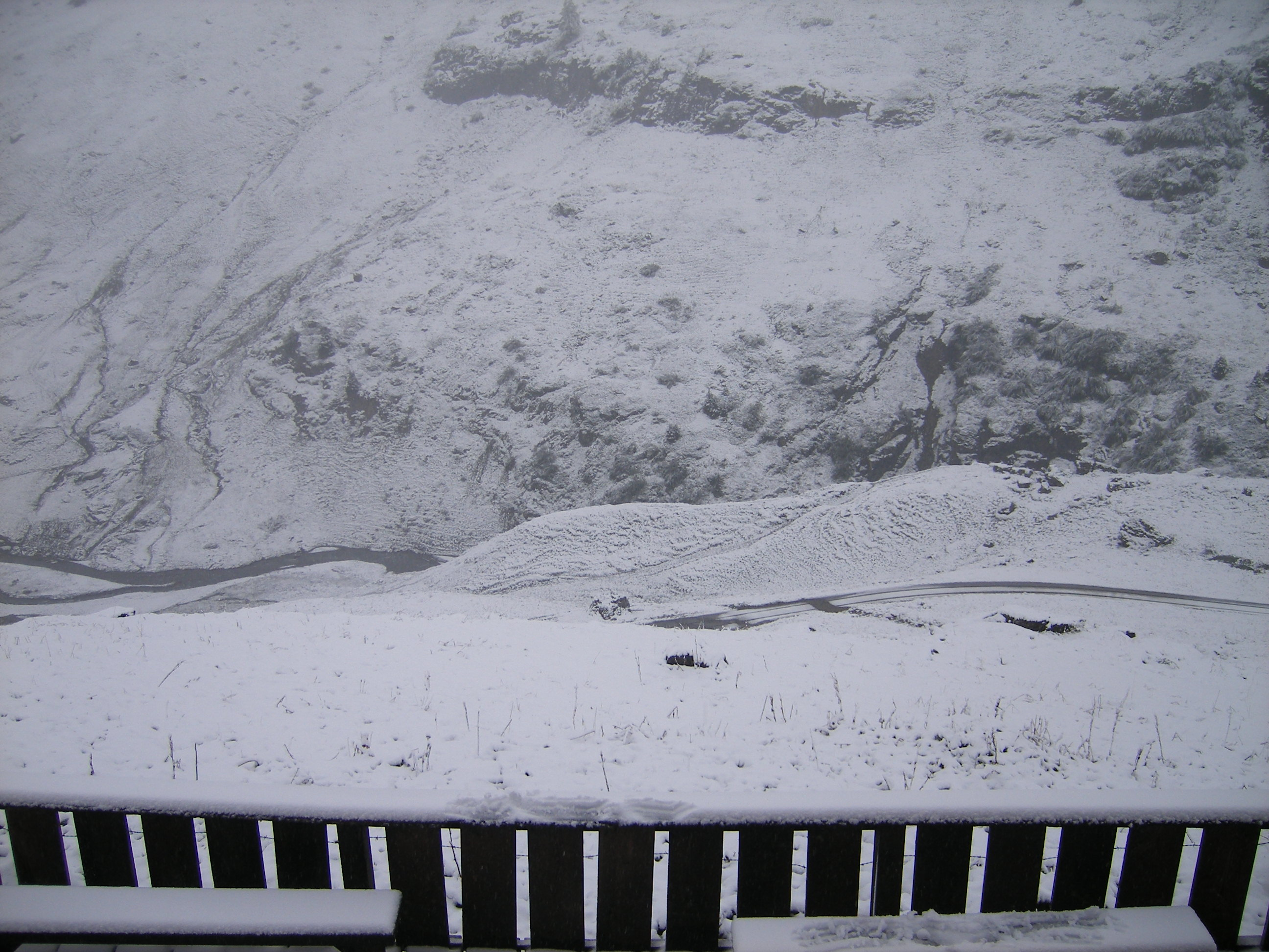 James Braithwaite